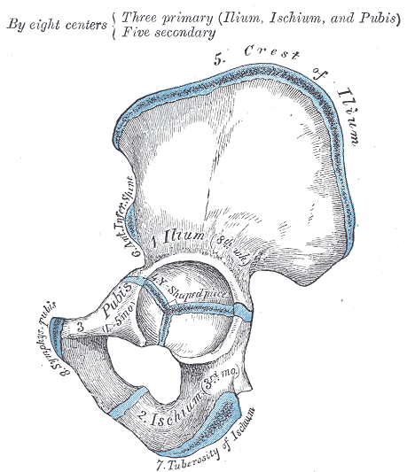 Plan of ossification of the hip bone. The three primary centers unite through a Y-shaped piece about puberty. Epiphyses appear about puberty, and unite about twenty-fifth year.